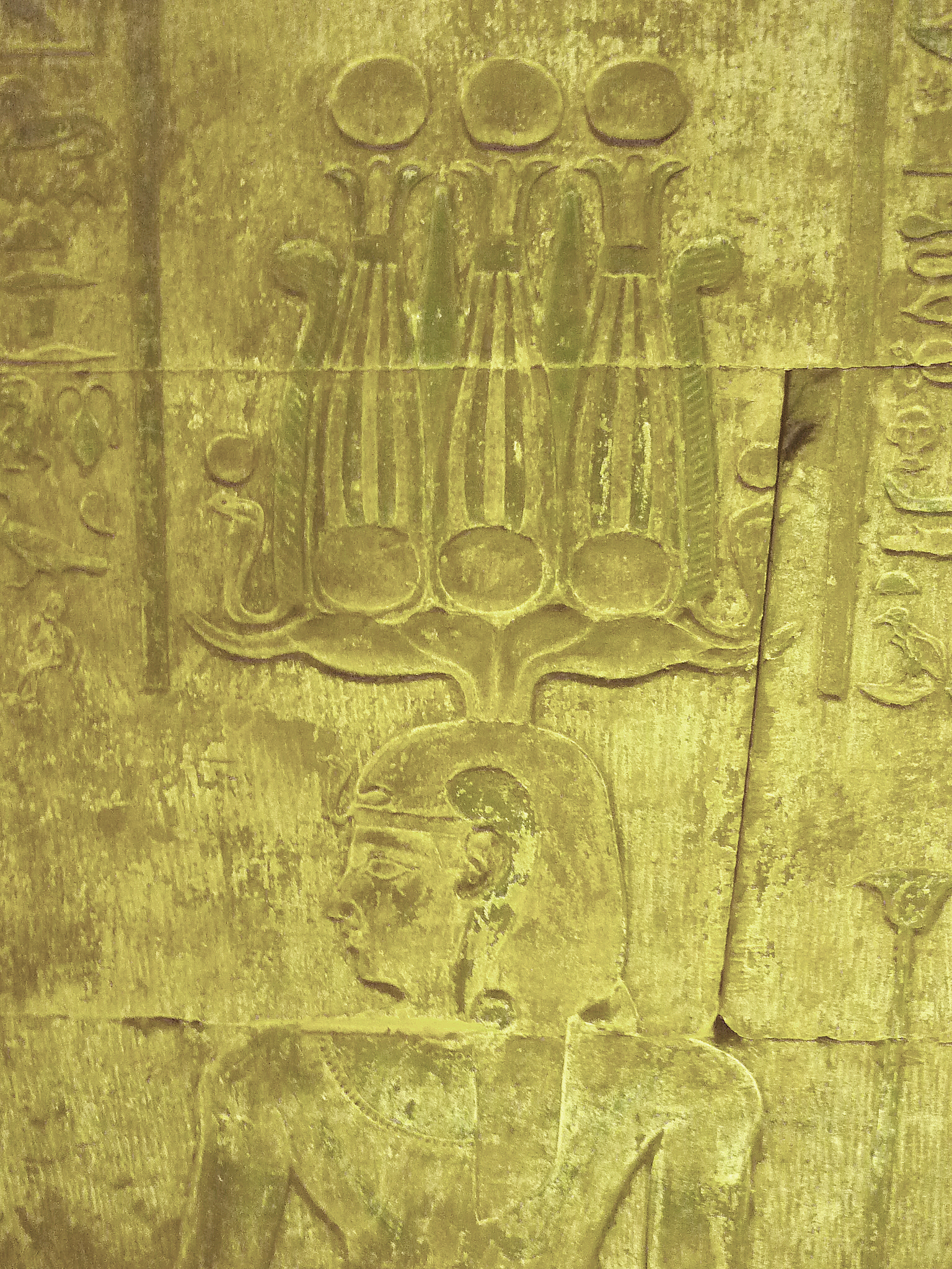 Wall relief in east upstairs, temple of Edfu, Egypt